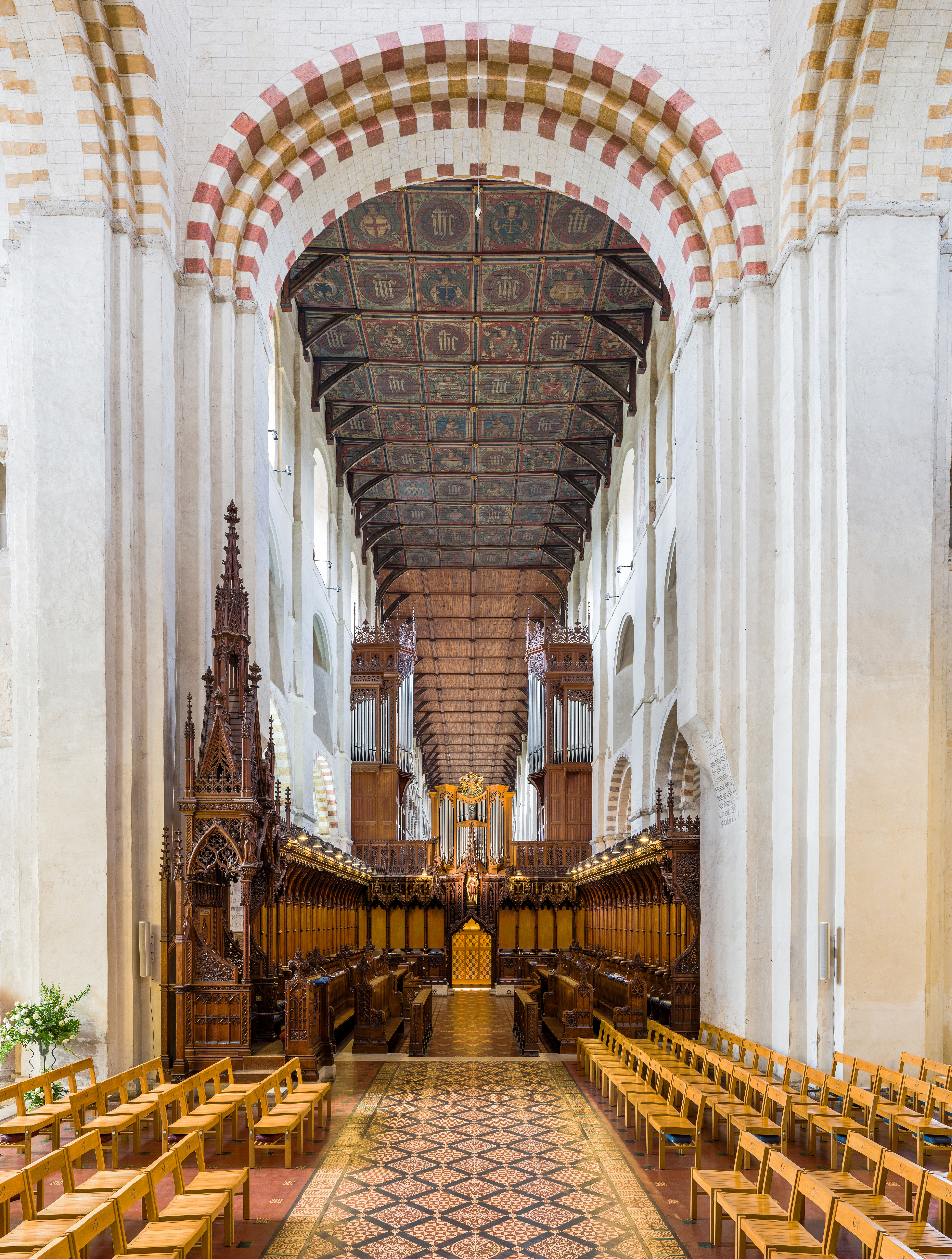 The choir of St Albans Cathedral from the Wallingford Screen steps in Hertfordshire, England.